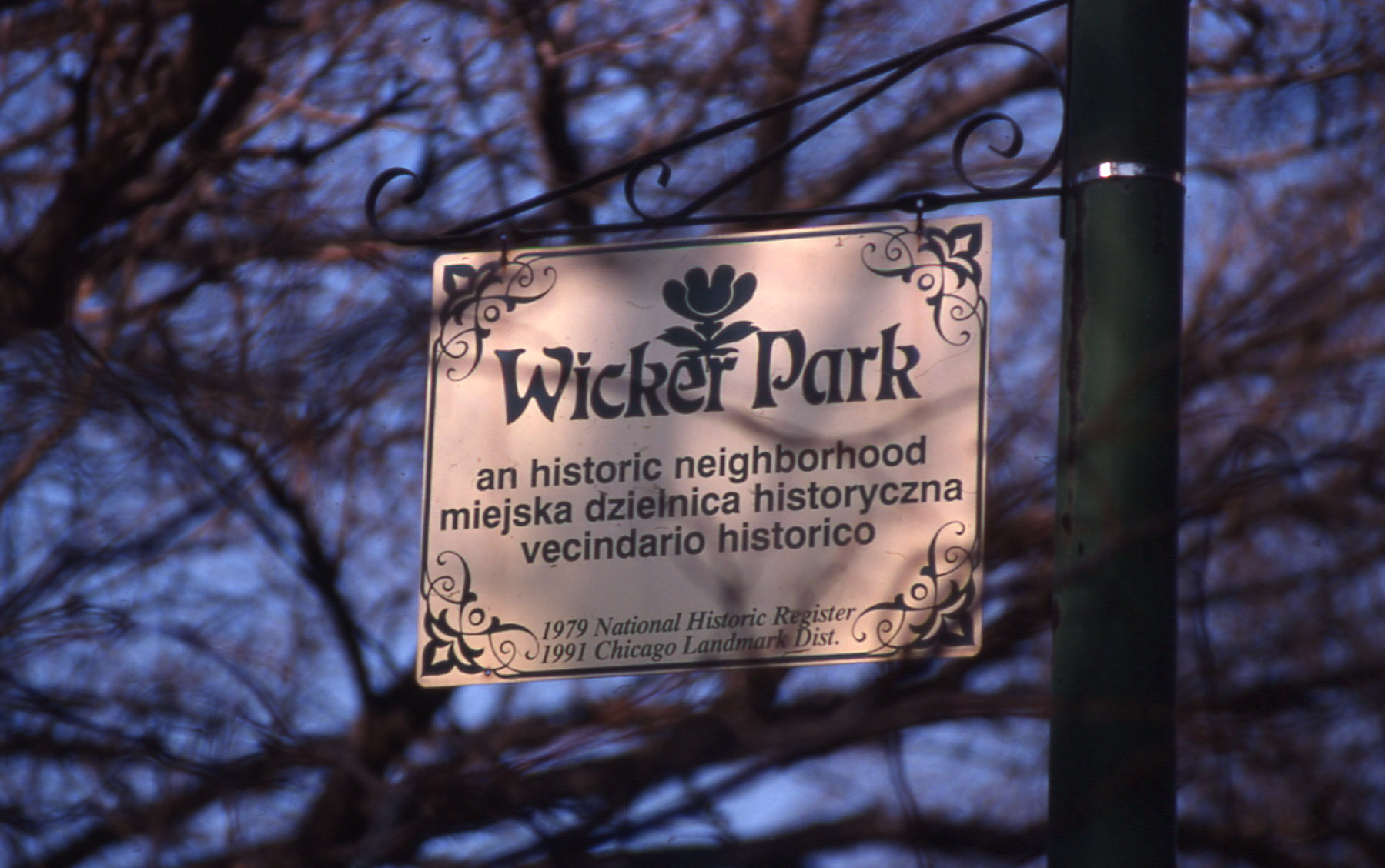 19990213 18 Wicker Park Chicago